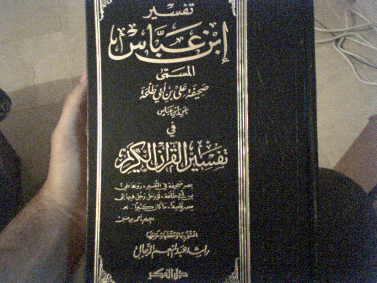 =This is a picture of the more authentic "Tafsir Ibn Abbas" version, NOT the Tanwir al-Miqbas version.